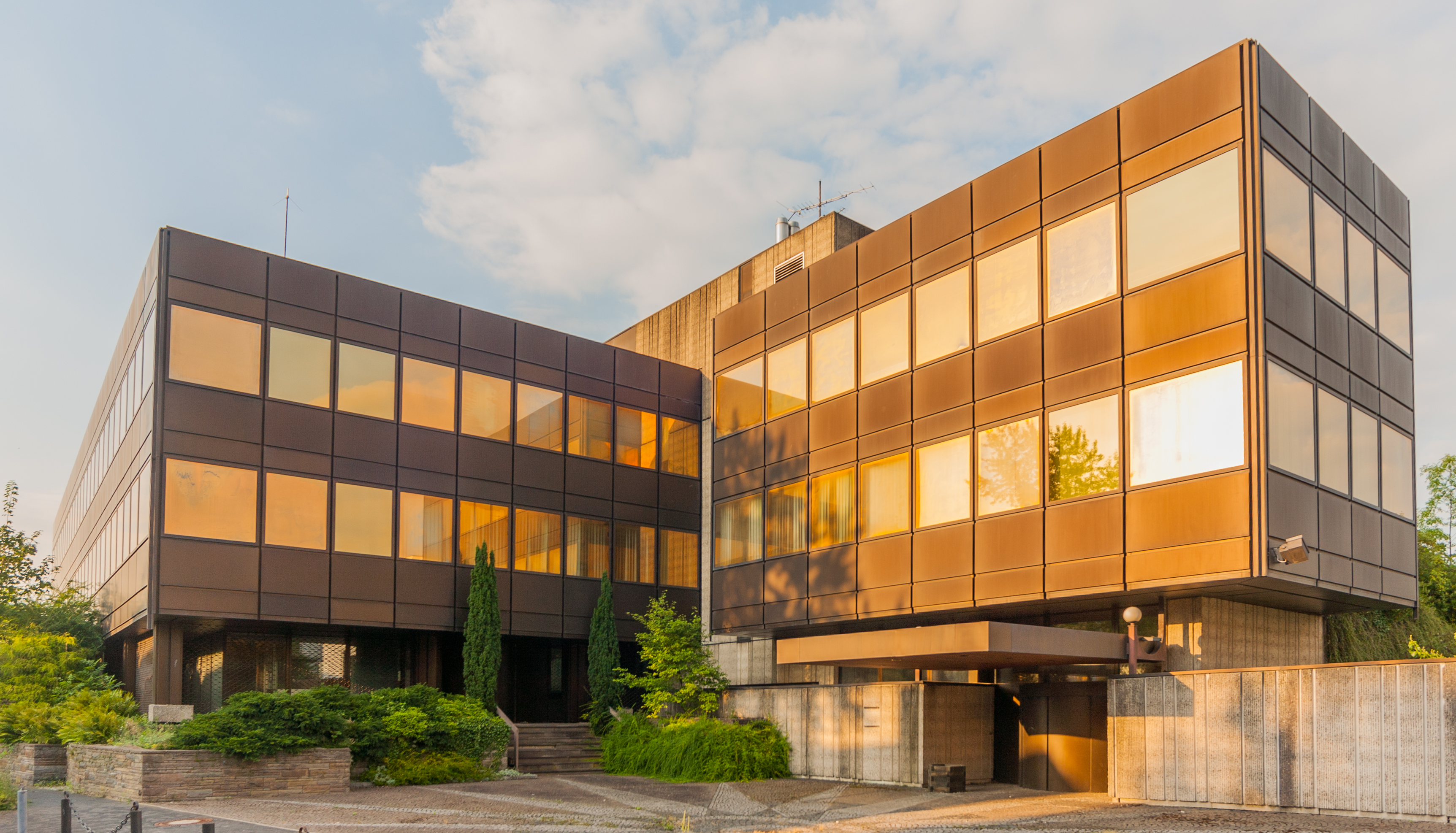 Former embassy of the Republic of South Africa, Bonn: View from South-west